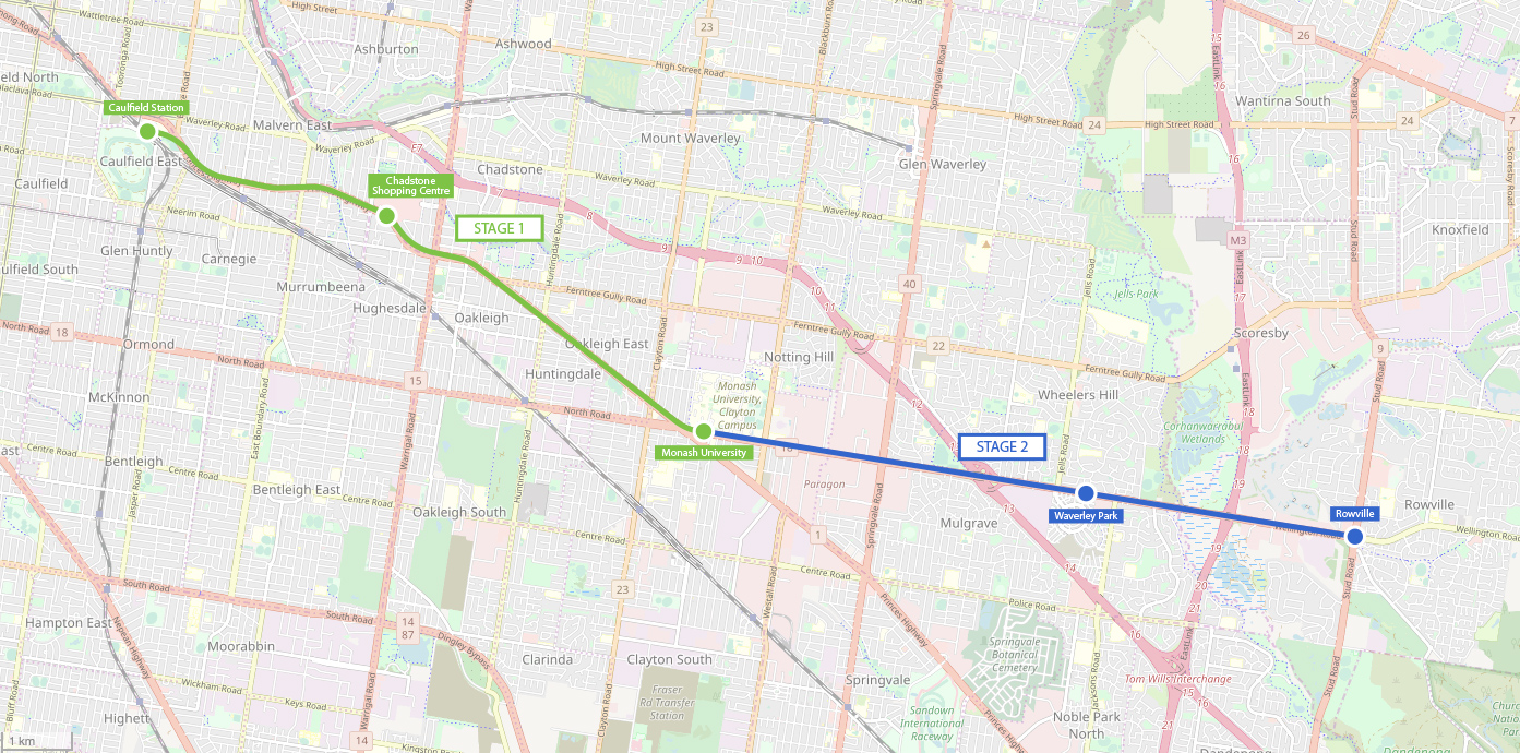 Map showing the proposed tram through Melbourne's south-east suburbs from Caulfield railway station to Chadstone, Monash University, Waverley Park and Rowville. This 2018 proposal is by the State Government of Victoria, and is to be completed in two stages as shown. Stage 1 is shown in Green and runs down Dandenong Road to Monash, Stage 2 is shown in blue and runs down Wellington Road to Rowville. The route and station locations are being investigated and the stations shown on the map are just the ones shown by the State Government. There is a competing plan by the Federal Government for a heavy rail line on a similar corridor. Reference